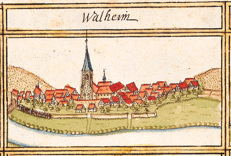 View of Walheim from the forest register books created by Andreas Kieser